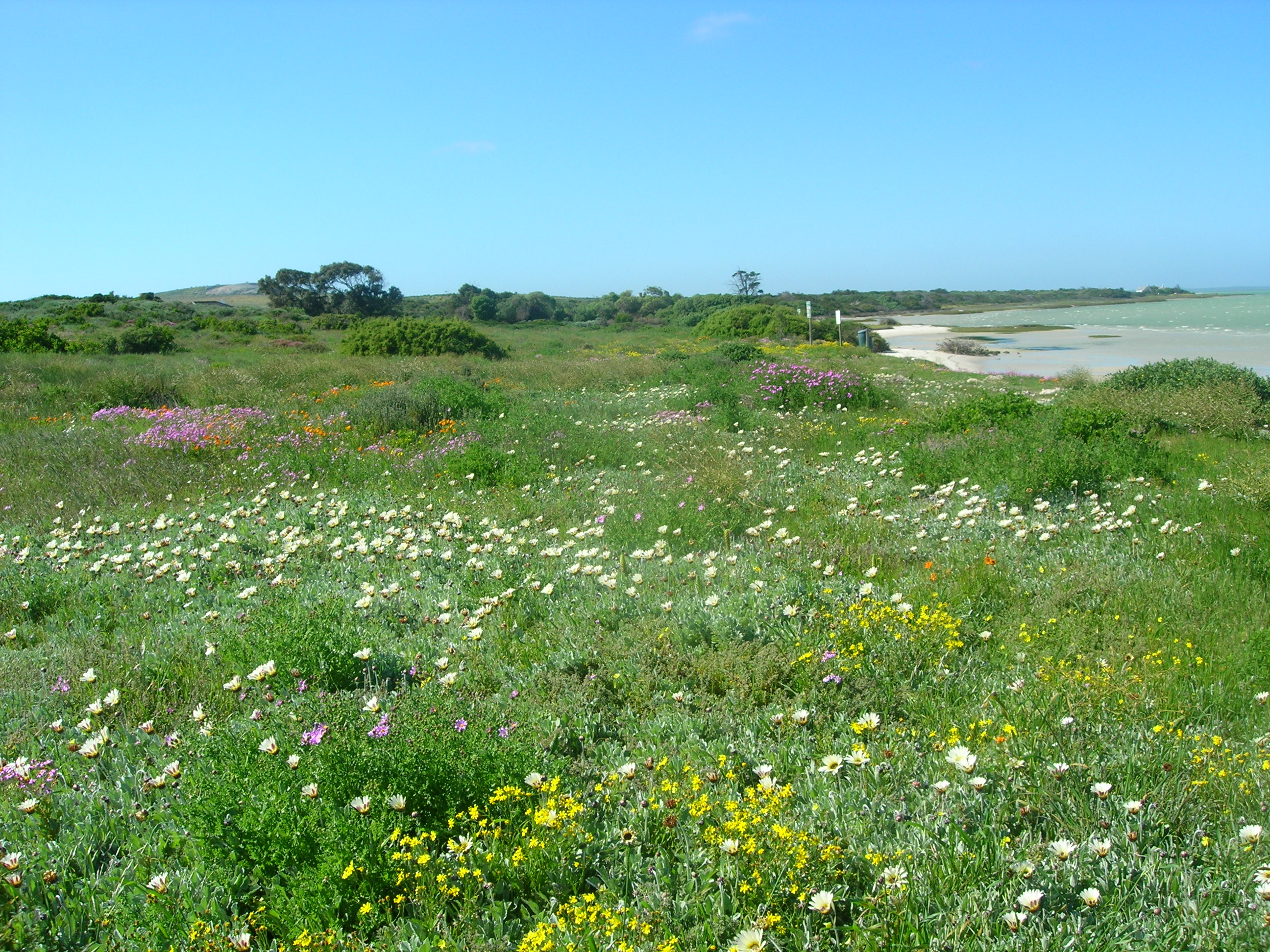 The Spring flowers in Namaqualand.This photo has been taken by Mr.Chen Hualin.